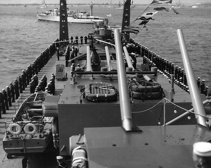 The crew of the U.S. Navy heavy cruiser USS Baltimore (CA-68) manning the rails in honor of Queen Elizabeth II, during the United Kingdom's Coronation Naval Review off Spithead, England, 15 June 1953. The ship just astern of Baltimore is HMS Starling (F66). Note life rafts stowed atop the cruiser's after 8"/55 triple gun turret; motor launch on deck at left and Piasecki HUP helicopter parked just in front of the hangar hatch.